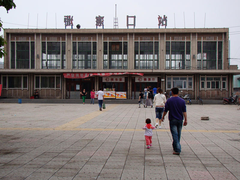 Zhangjiakou Railway Station